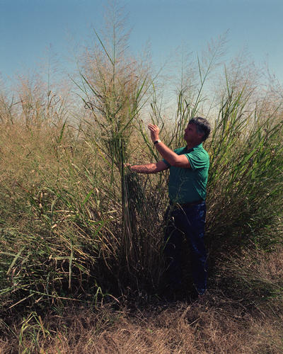 Switchgrass (Panicum virgatum, Alamo variety) grown at the University of Alabama's test plot close to Auburn, Alabama, USA. – Switchgrass is one of the most promising energy crops in the southern United States of America (USA). Once switchgrass blanketed the prairies, protecting the soil, cleansing the wetlands, and providing shelter and food to wildlife. Now that gasification is being developed to turn feedstocks like switchgrass into electricity, farmers have the option to plant these hardy grasses to restore eroded land and gain flexibility in crop planning and rotation.